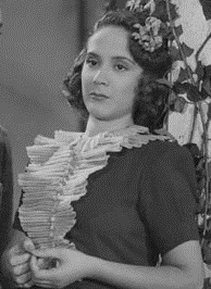 Maria Esther Gamas- actriz y vedette